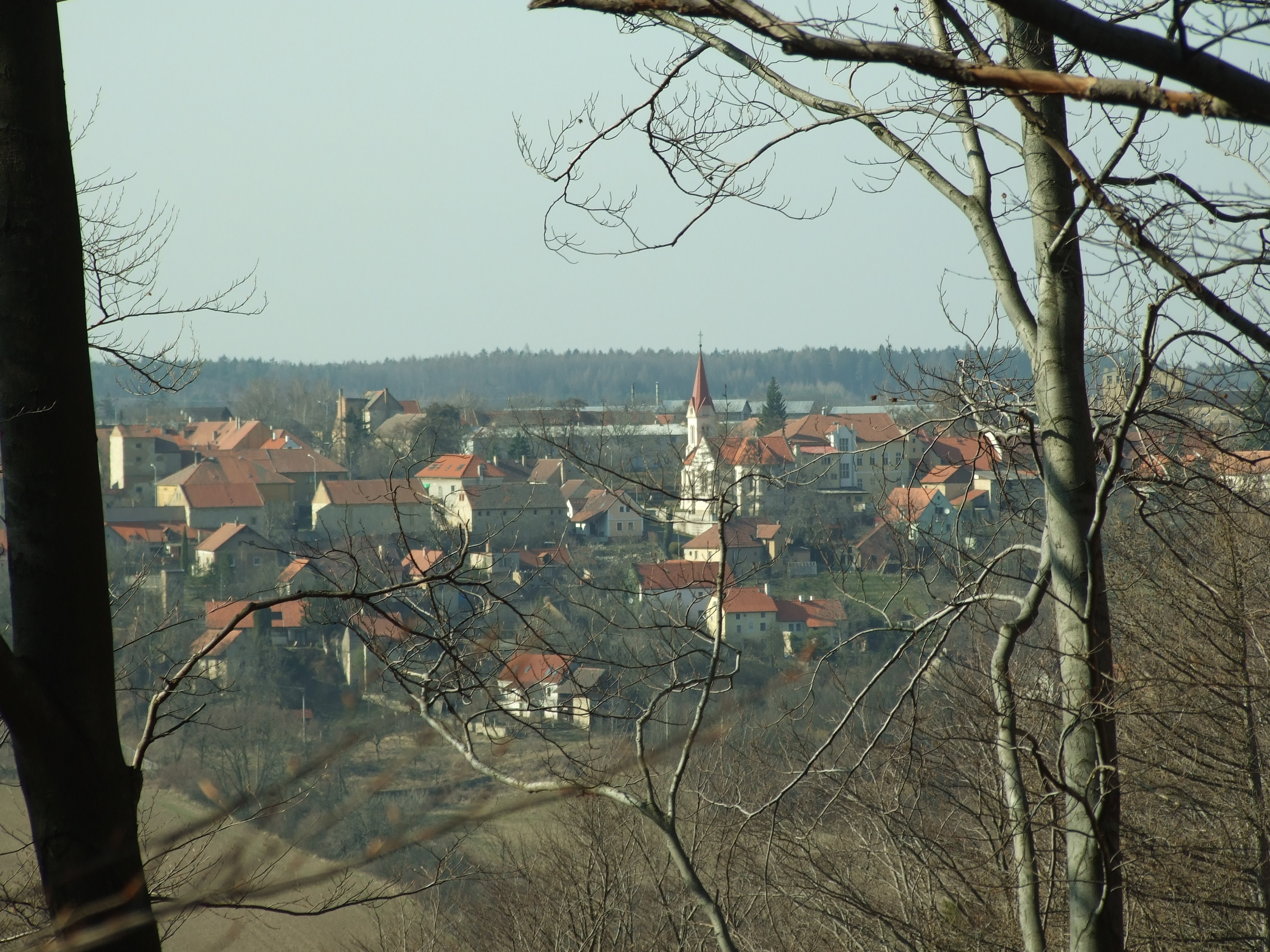 Town of Ročov in Louny District. Ústí nad Labem Region, CZ